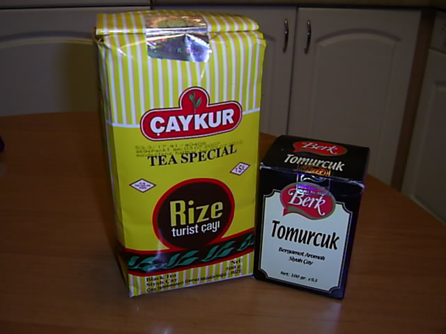 Packs of Turkish tea (Rize turist cayi & Tomurcuk)